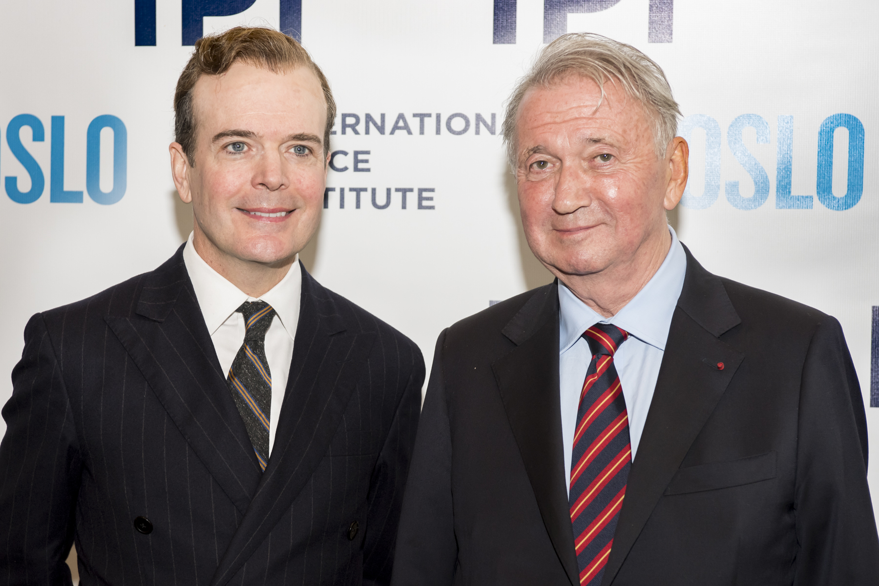 International Peace Institute President Terje Rød-Larsen in conversation after a special performance of "OSLO" hosted by IPI. Photo credit: International Peace Institute.